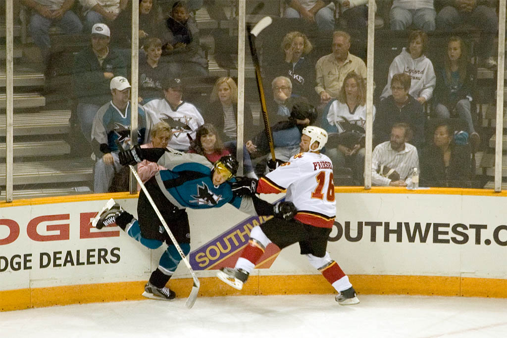 Kyle McLaren (SJS) and Jeff Friesen of Calgary Flames, game vs. San Jose Sharks